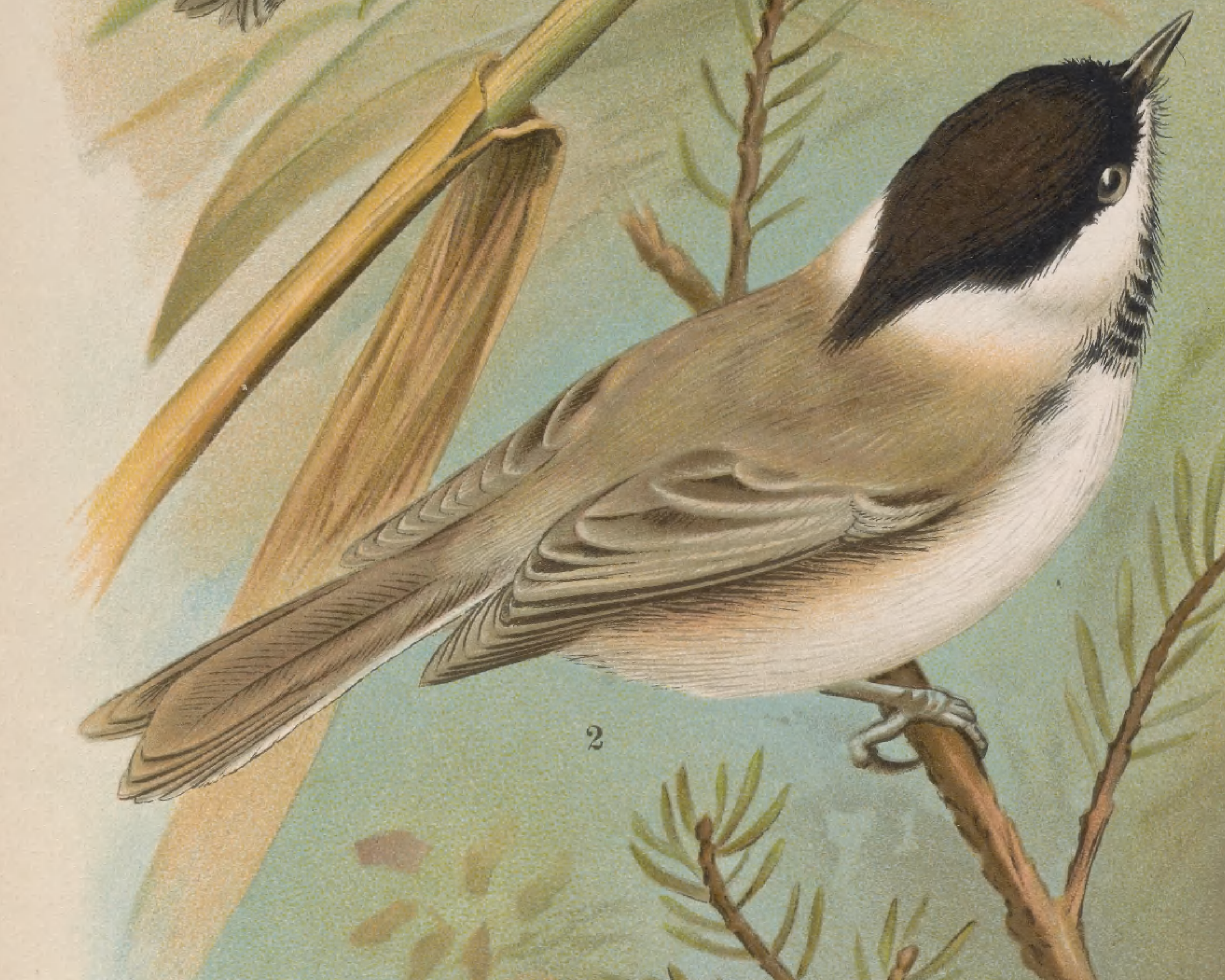 Poecile montanus montanus Naumann